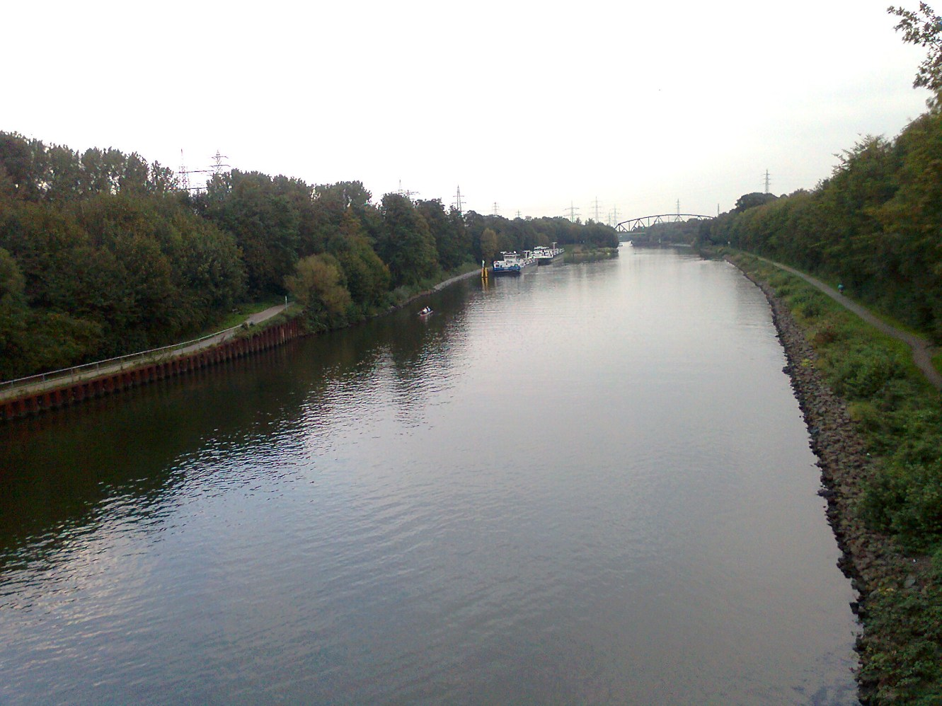 Location of the former Rhine–Herne Canal lock III in Essen-Dellwig, Germany, in September 2011, photographed from the Einbleckstraße bridge looking eastwards. The lock was abandoned in 1980 due to mining damages. There are no notable remainders of the lock aside from the fact that the canal is slightly wider at this point. There are also no signs anywhere which would indicate that this had been the location of a former lock.